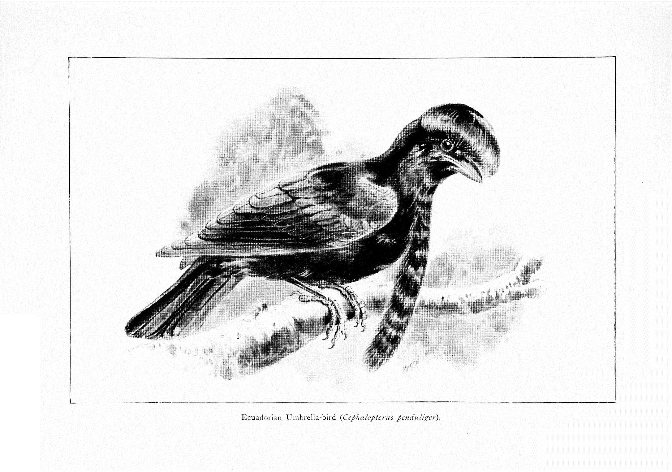 Wonders of the bird world